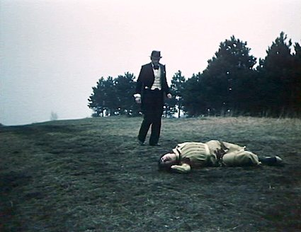 Death of Psyche